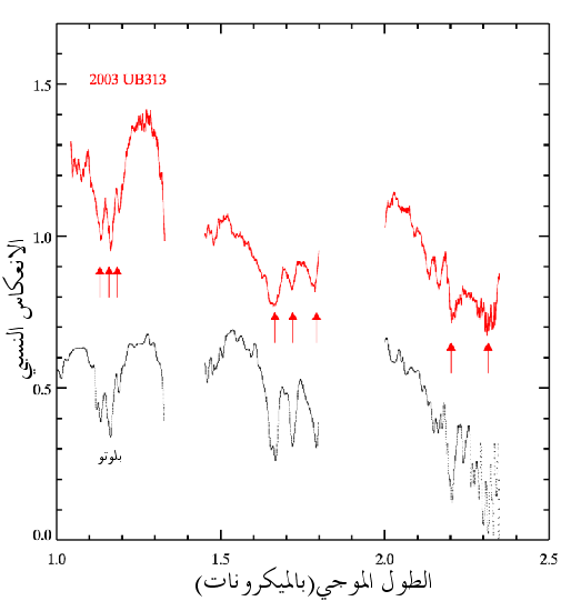 Near infrared spectrum of minor planet w:2003 UB313, taken with the Gemini 8 m telescope. Credit: Michael Brown, Chad Trujillo, David Rabinowitz. Released under GFDL with permission from Michael Brown. (from en)